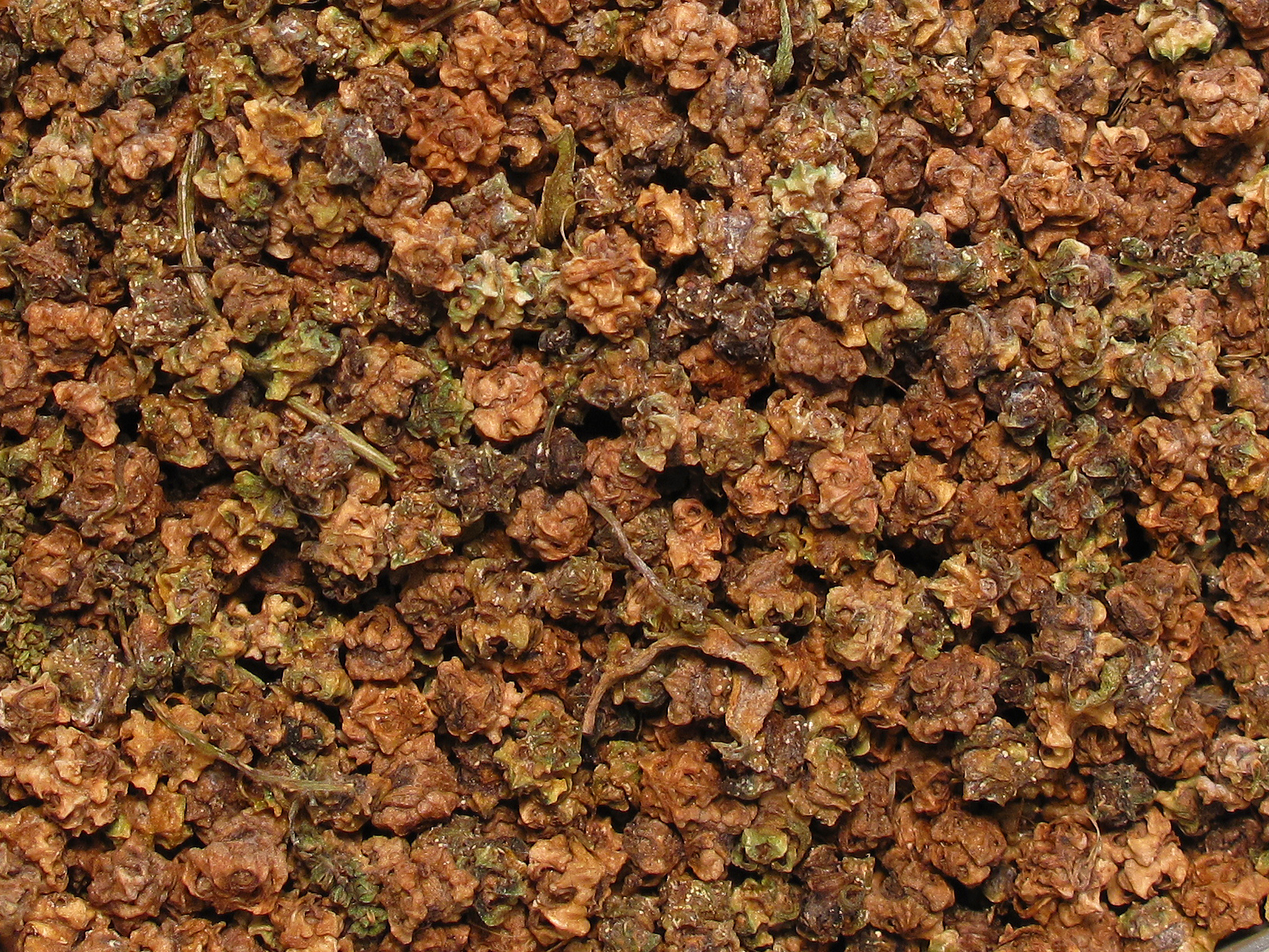 Home-grown seeds of Detroit Dark Red beets (Beta vulgaris), an earthy-tasting, dark red, culinary beet. Approximately 8 months elapsed from planting to harvest of the seeds.